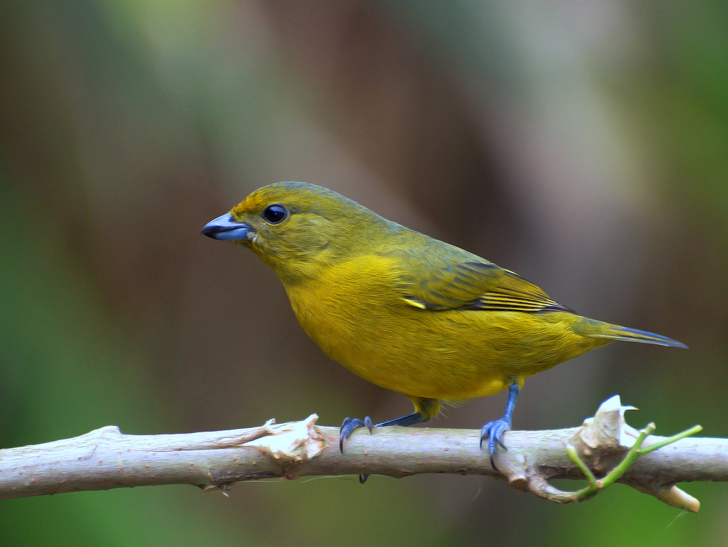 Violaceous Euphonia, female